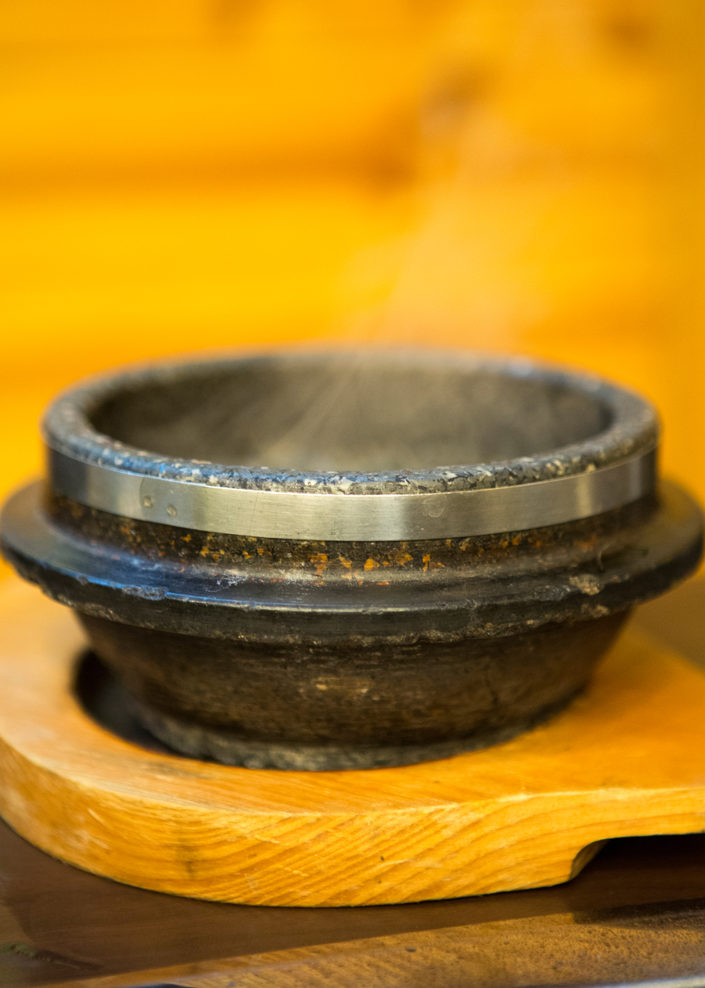 Dolsot (stone pot)